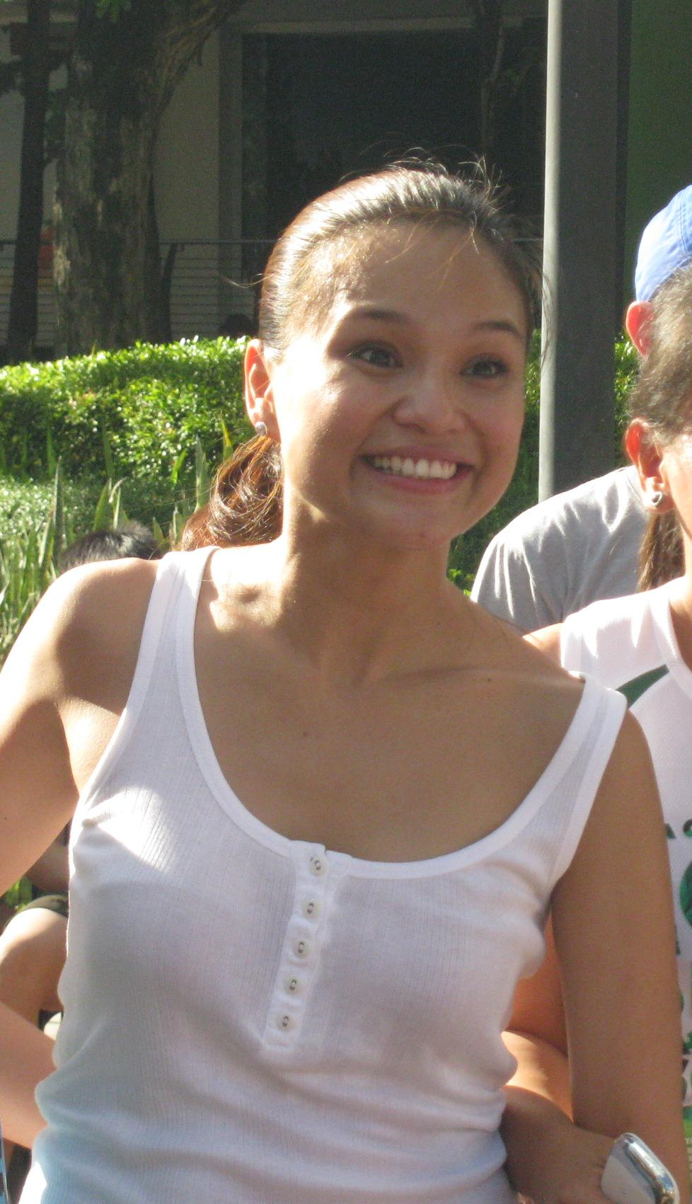 Image of Filipino actress and singer Julia Clarete.